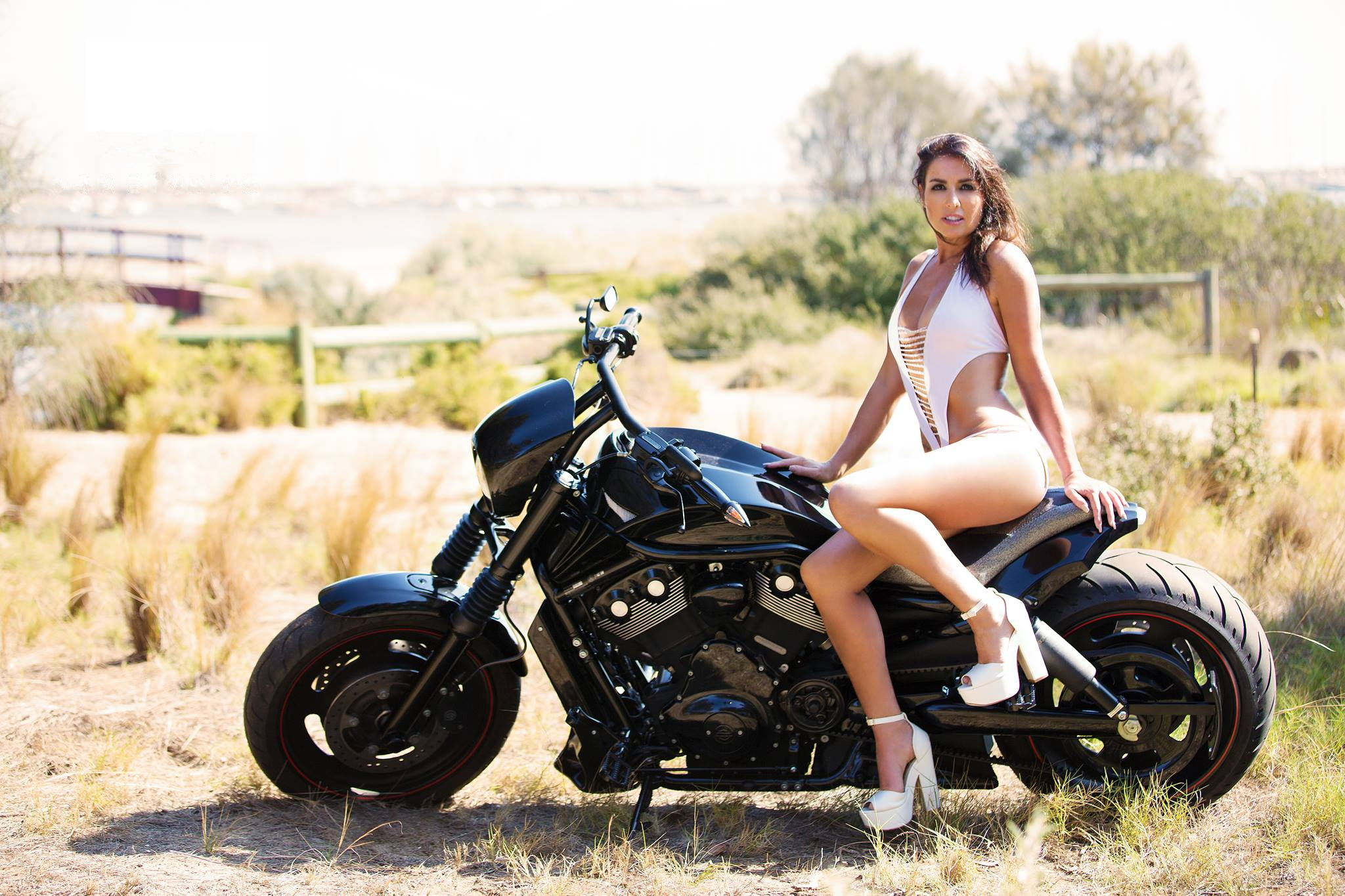 Mrs Australia Globe Classic 2016 Wendy Mason at St Kilda beach photo by GG Studios and Harley Davidson by AA Custom Cycles